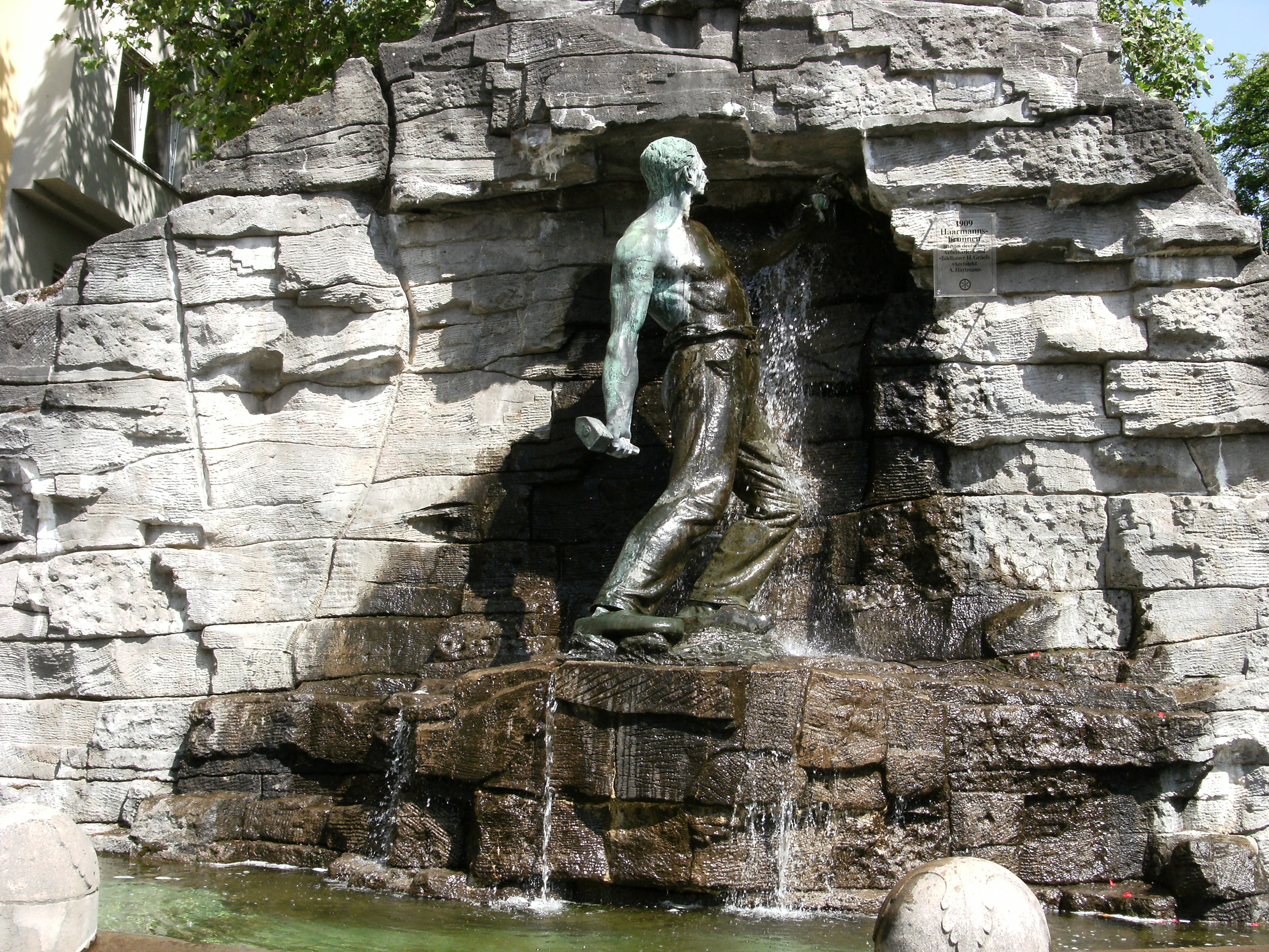 Osnabrück sculpture.